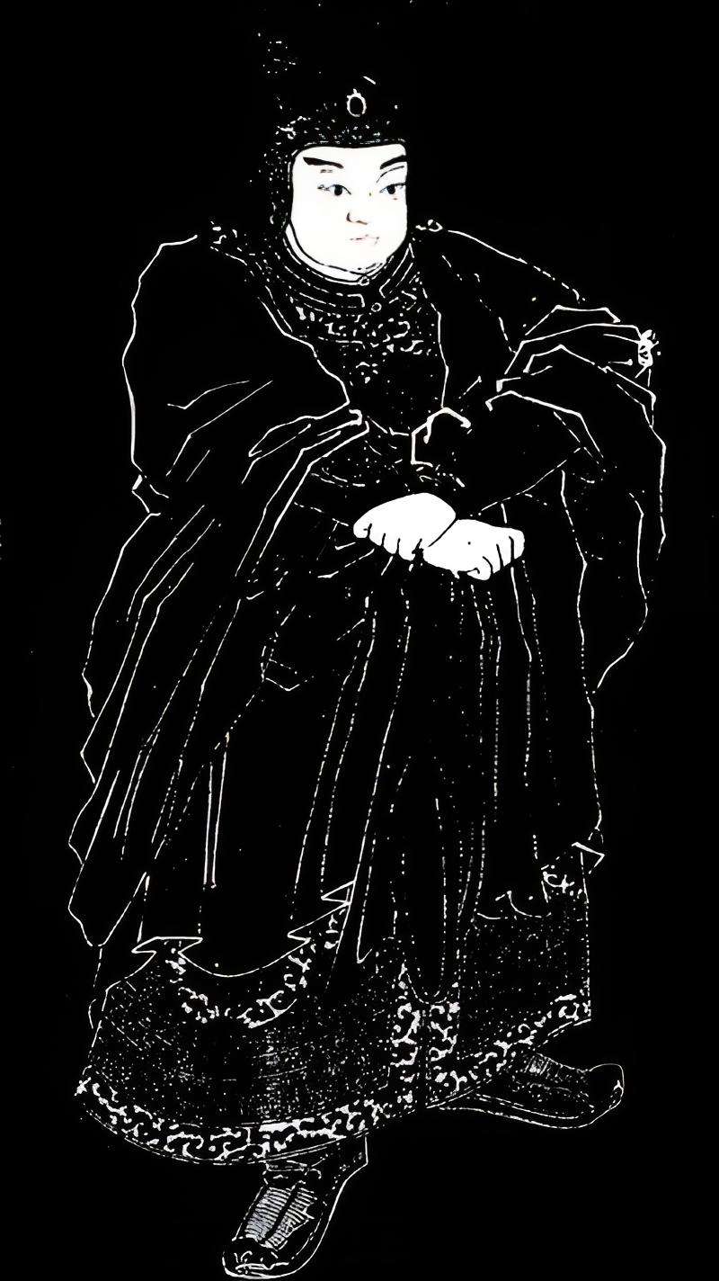 Yue Yun, Yue Fei's eldest son